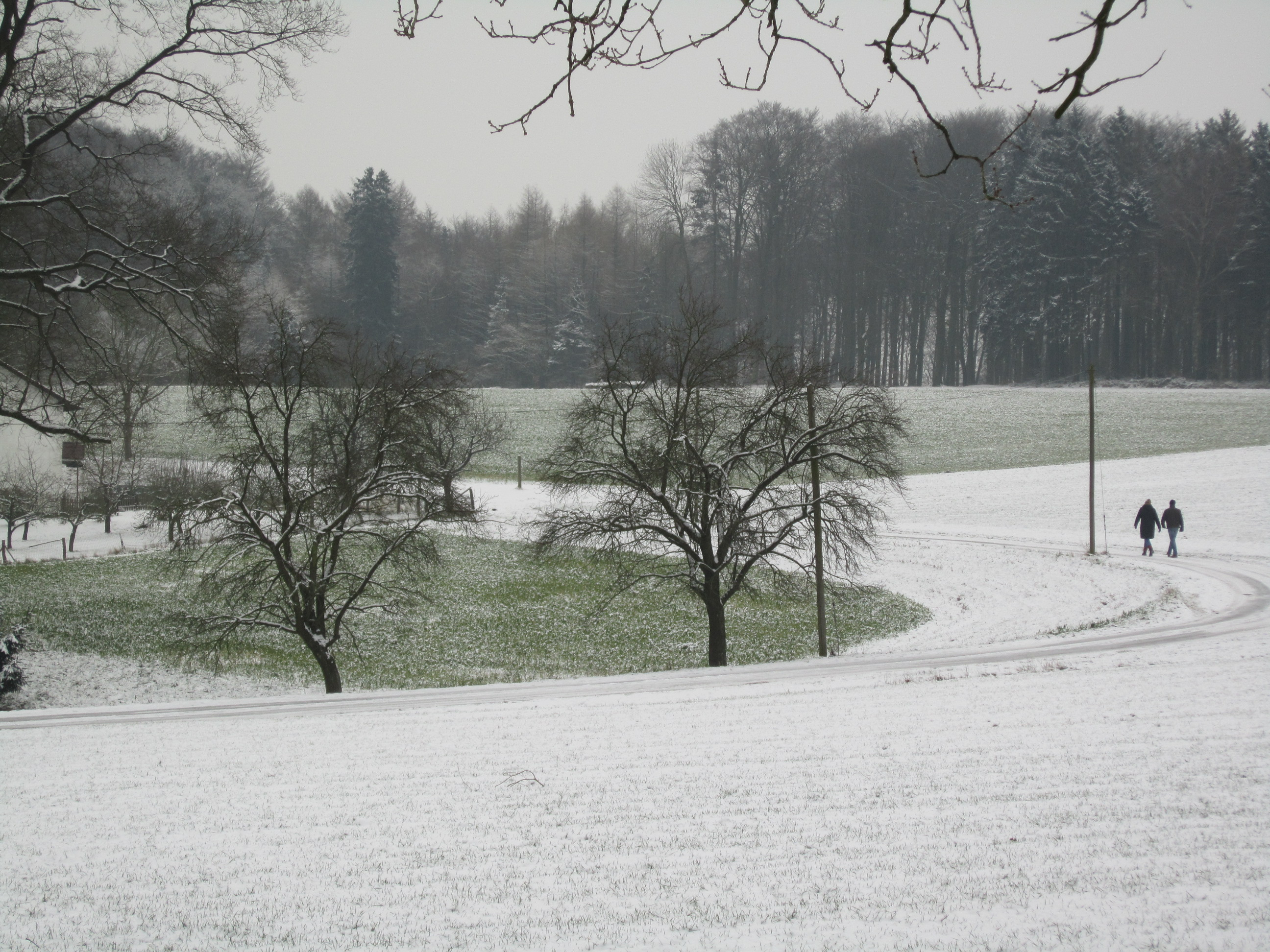 Walking trail "Weißer Weg" on top of the Stemweder Berg